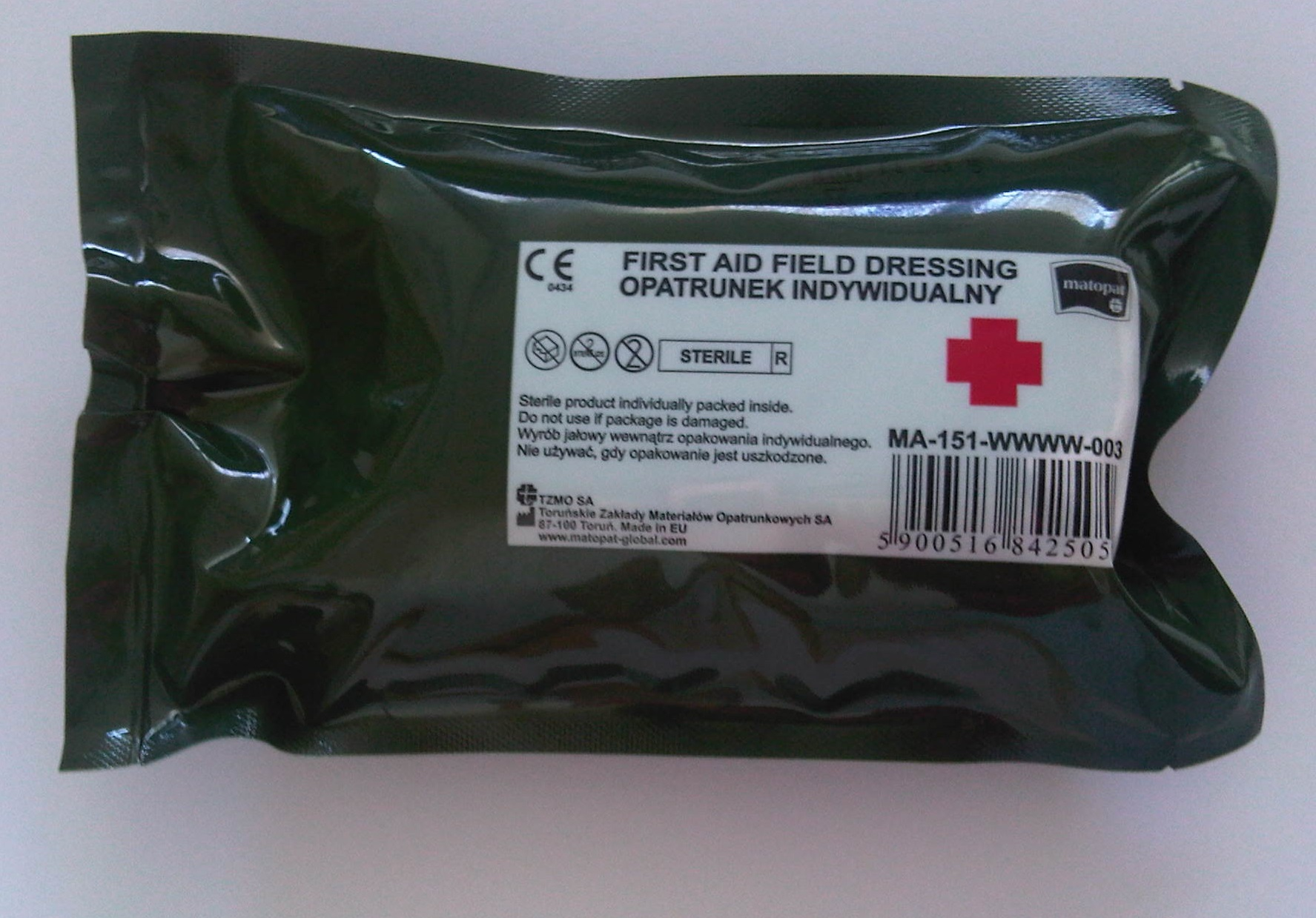 Individual dressing of W "big" type - packaging